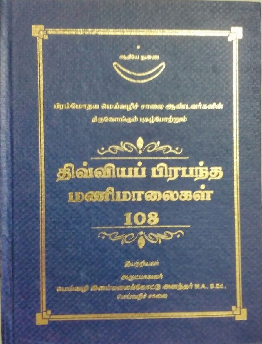 "Divya Prabantha Manimalaigal 108" book front cover. This book is authored by Meivazhi Ilam Kalaikottu Ananthar